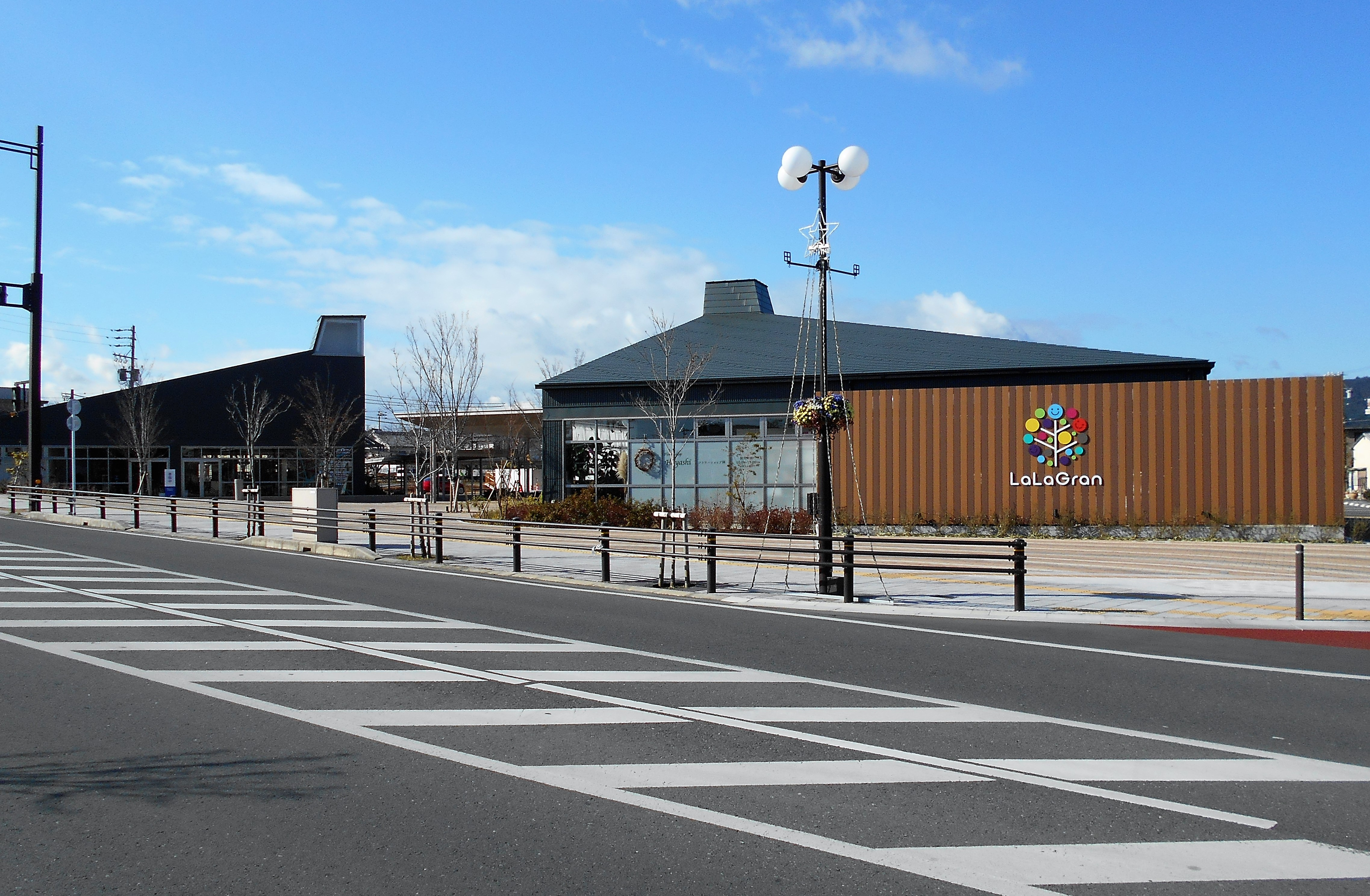 LaLaGran（Retail buildings in Tahara city, Aichi prefecture）.This photo was taken from the north side.【January 2019】